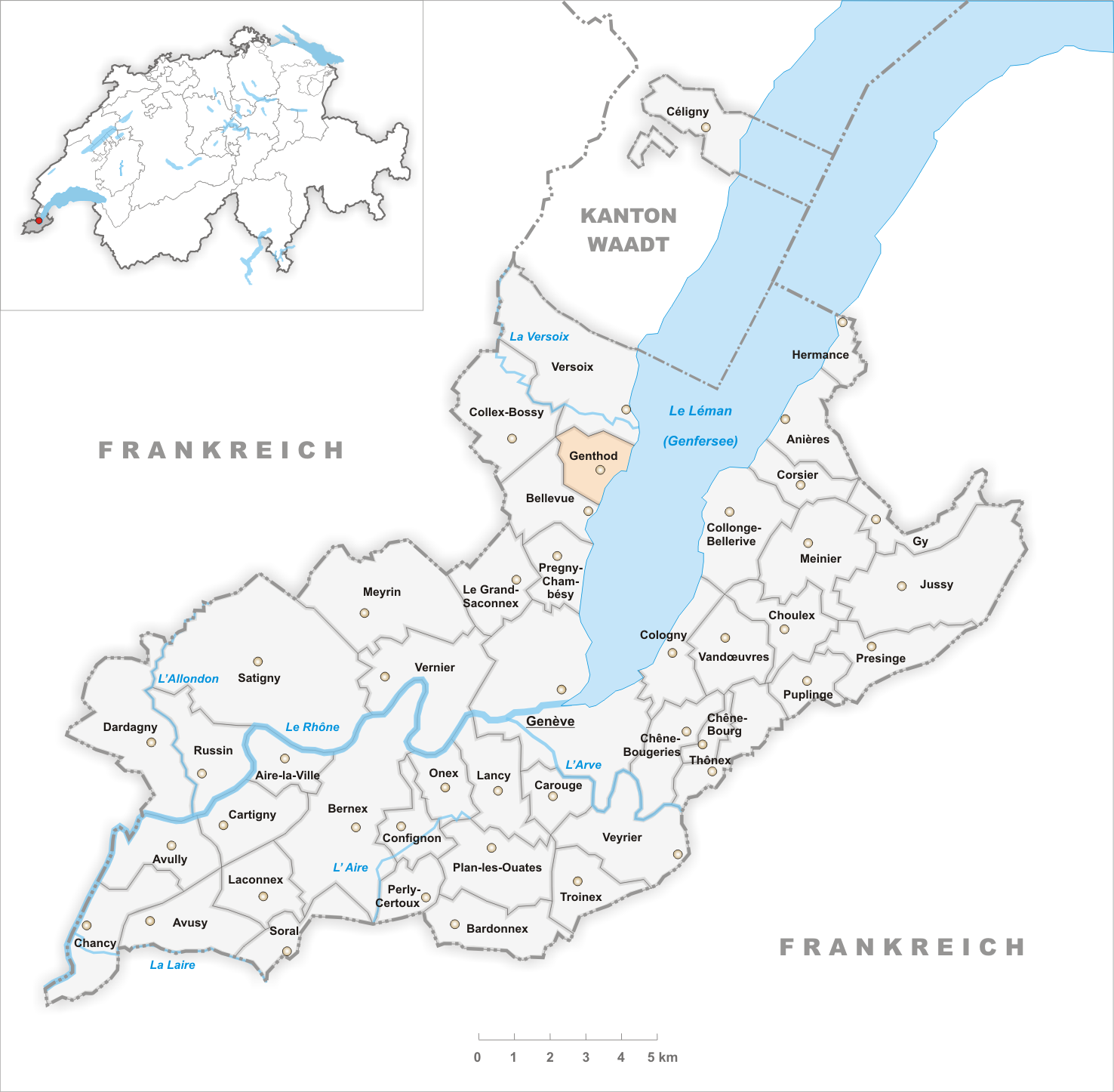 Municipality Genthod